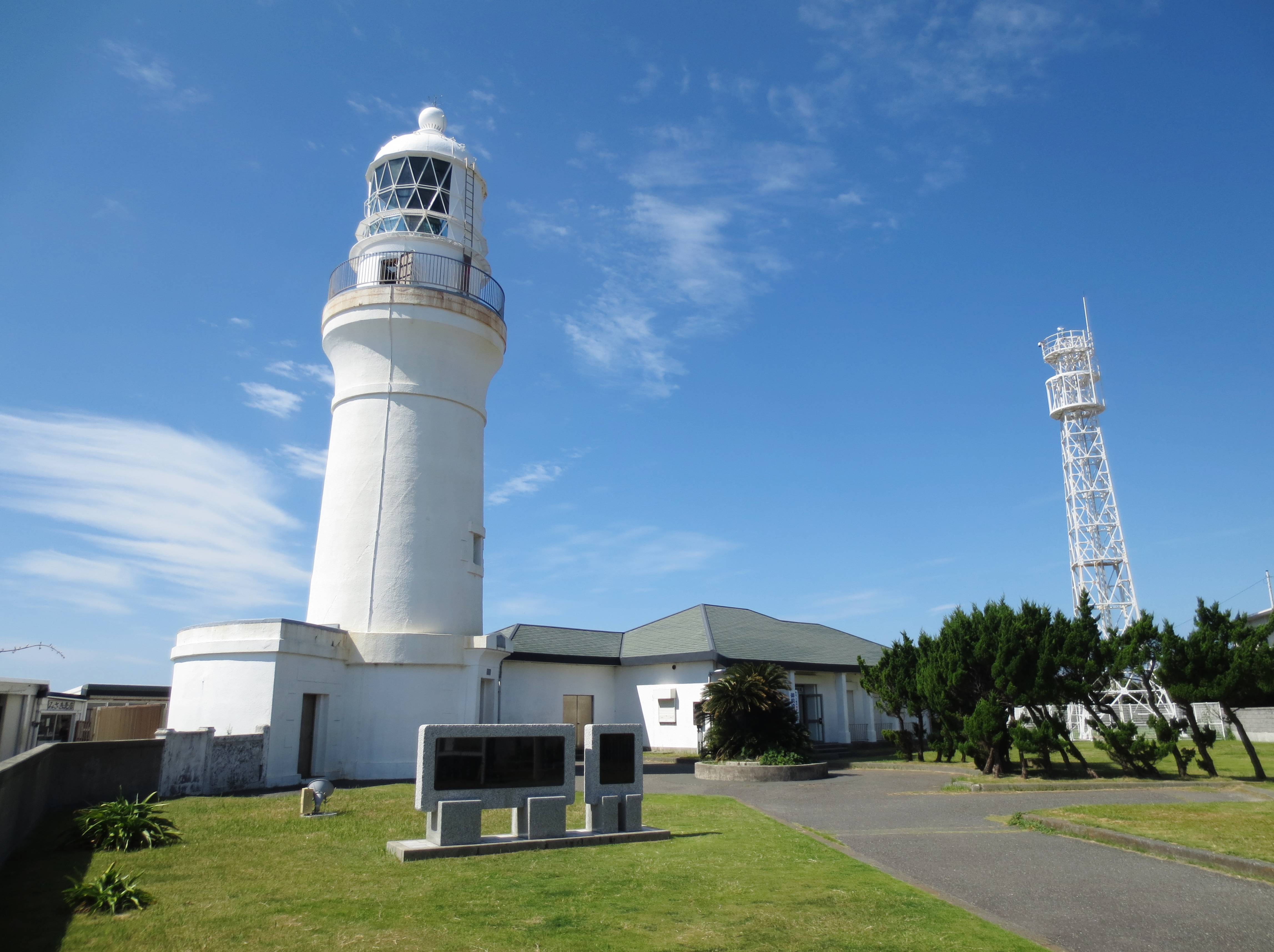 Omaezaki Lighthouse.